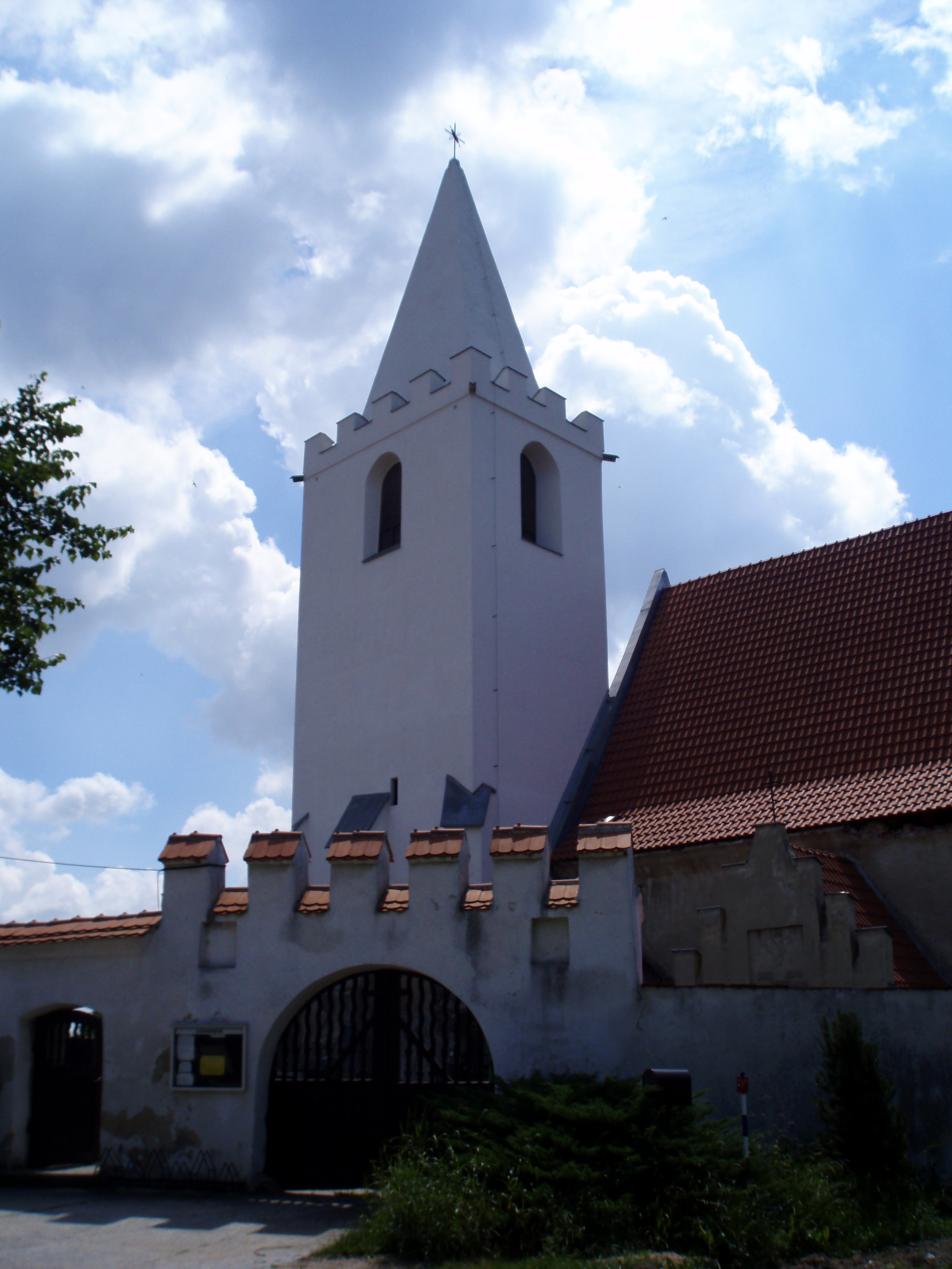 Church in Staré Ždánice